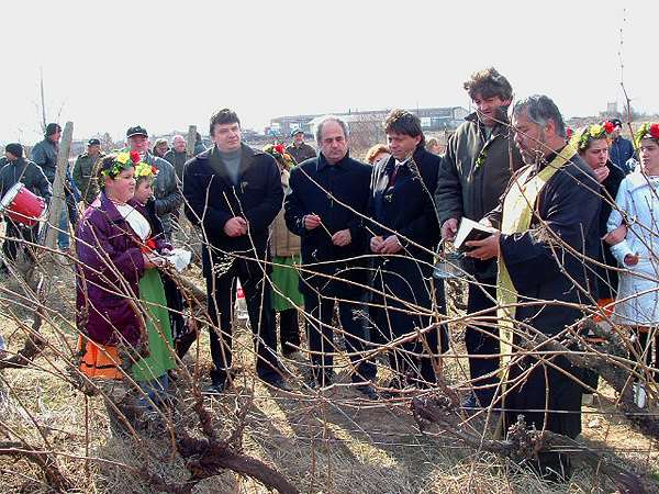 Cutting the vines on 14 February 2003, in a tradition called "Trifon Zarezan". Village Karabunar, Bulgaria. Related to many local beliefs and legends